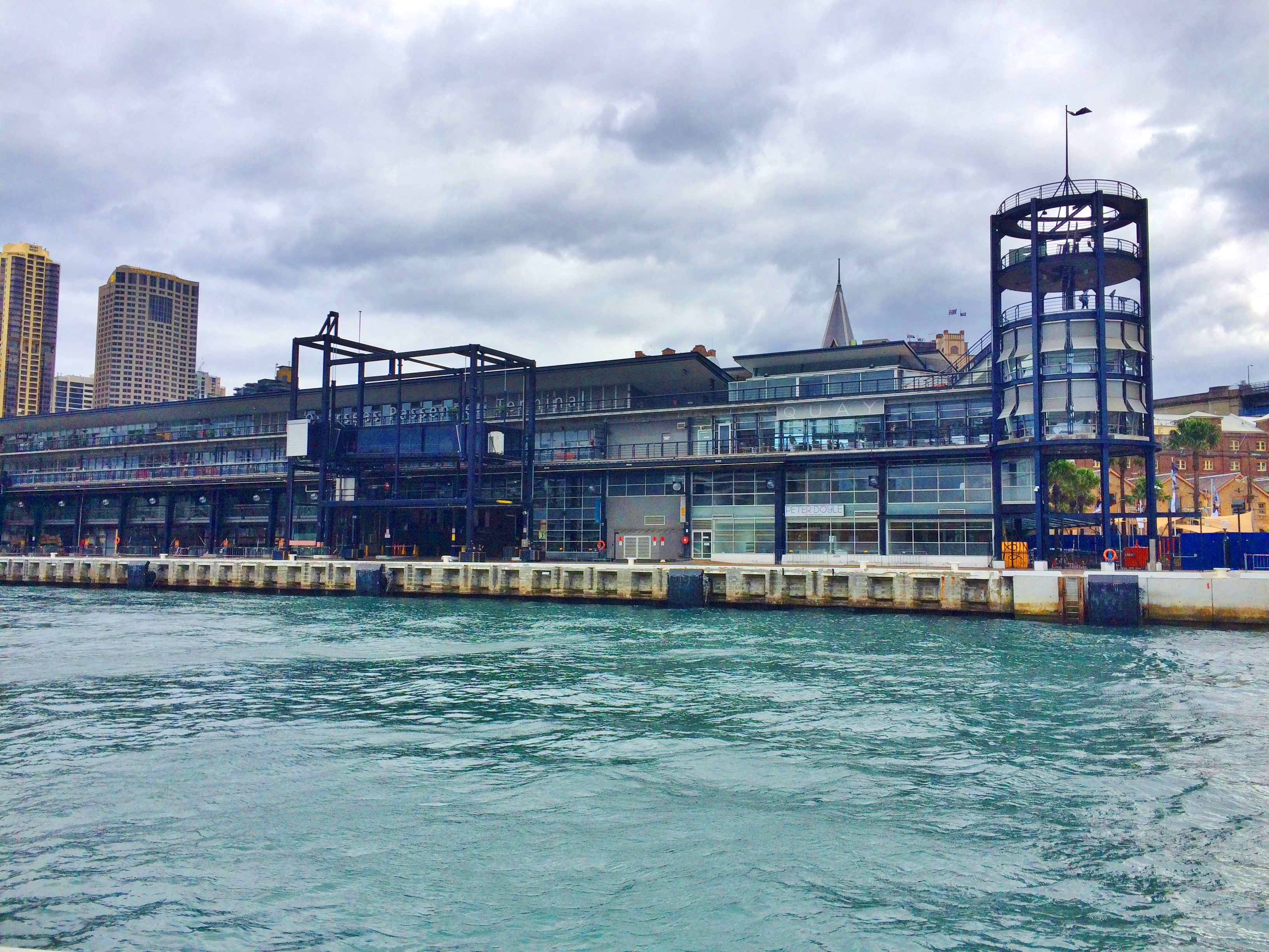 A view aboard the Rivercat Marlene Mathews on Sydney Cove looking towards the Overseas Passenger Terminal adjacent to Circular Quay, Sydney Cove, Sydney. Here, cruise ships dock to deliver and/or collect passengers on international trips. It is host to many cruise ships sailing to and from many different countries in and around the Pacific.